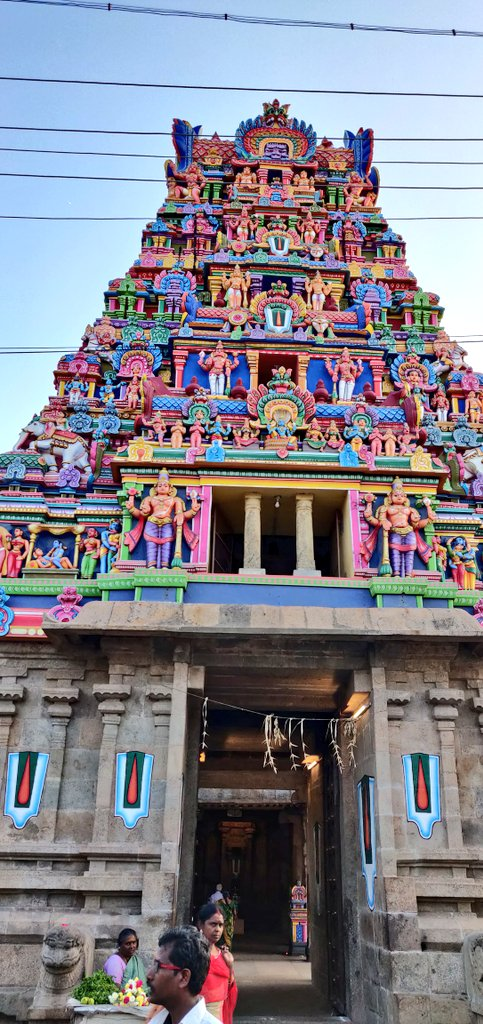 The Kattu Narasimhaperumal Temple is a Hindu temple situated in the suburb of Srirangam in Tiruchirappalli, India. It is also known as Azhagiya Singar temple and is situated at a distance of 1 kilometre from the Srirangam railway station. The temple is also called traditionally as "Ekaanthanthaman koil" meaning "calm and quiet ambiance" temple. It is widely believed that the presiding deity grants boons to devotees and is aptly called "Varaprasaaadhi" (boon giver). The temple was built by the Pandyan King Vallabadevan who was a devotee of Sri Periazhwar in the ninth century CE. However as per legend and folklore the temple predates the Sri Ranganathaswamy Temple, Srirangam and is one of the oldest temples in the city. Some attribute the temple to be of 5th century CE.